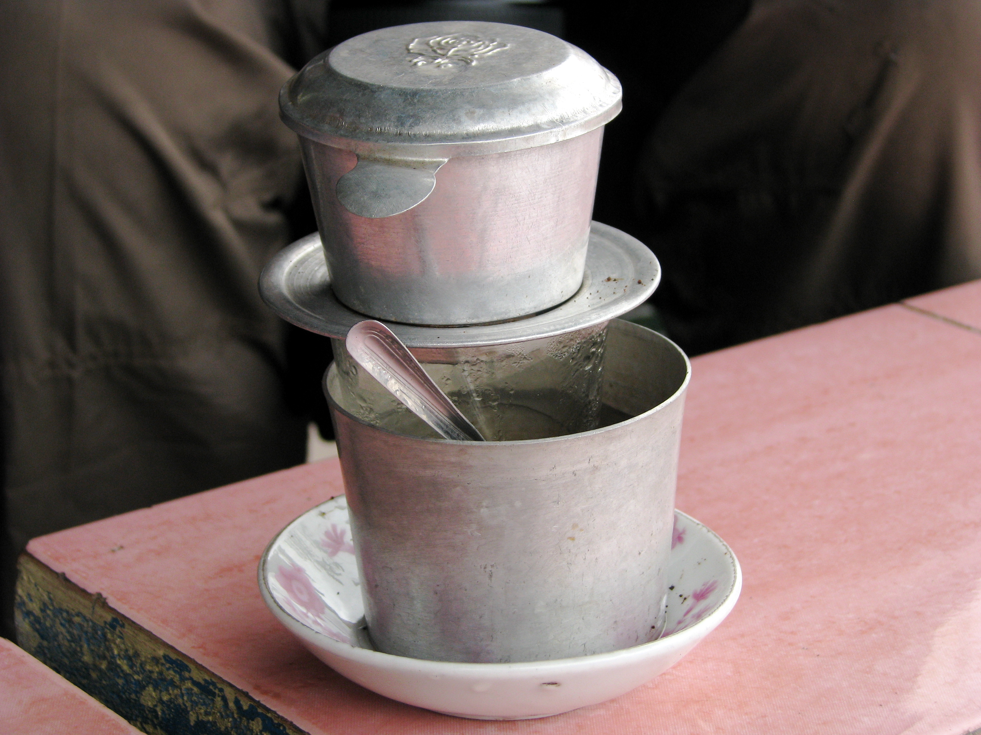 Vietnamese coffee in a Phin filter